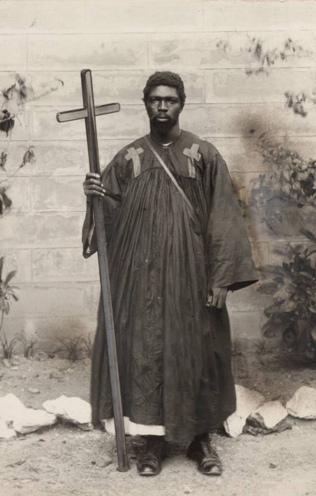 Photo of Sampson Oppong - an early 20th century prophet on the Gold Coast.